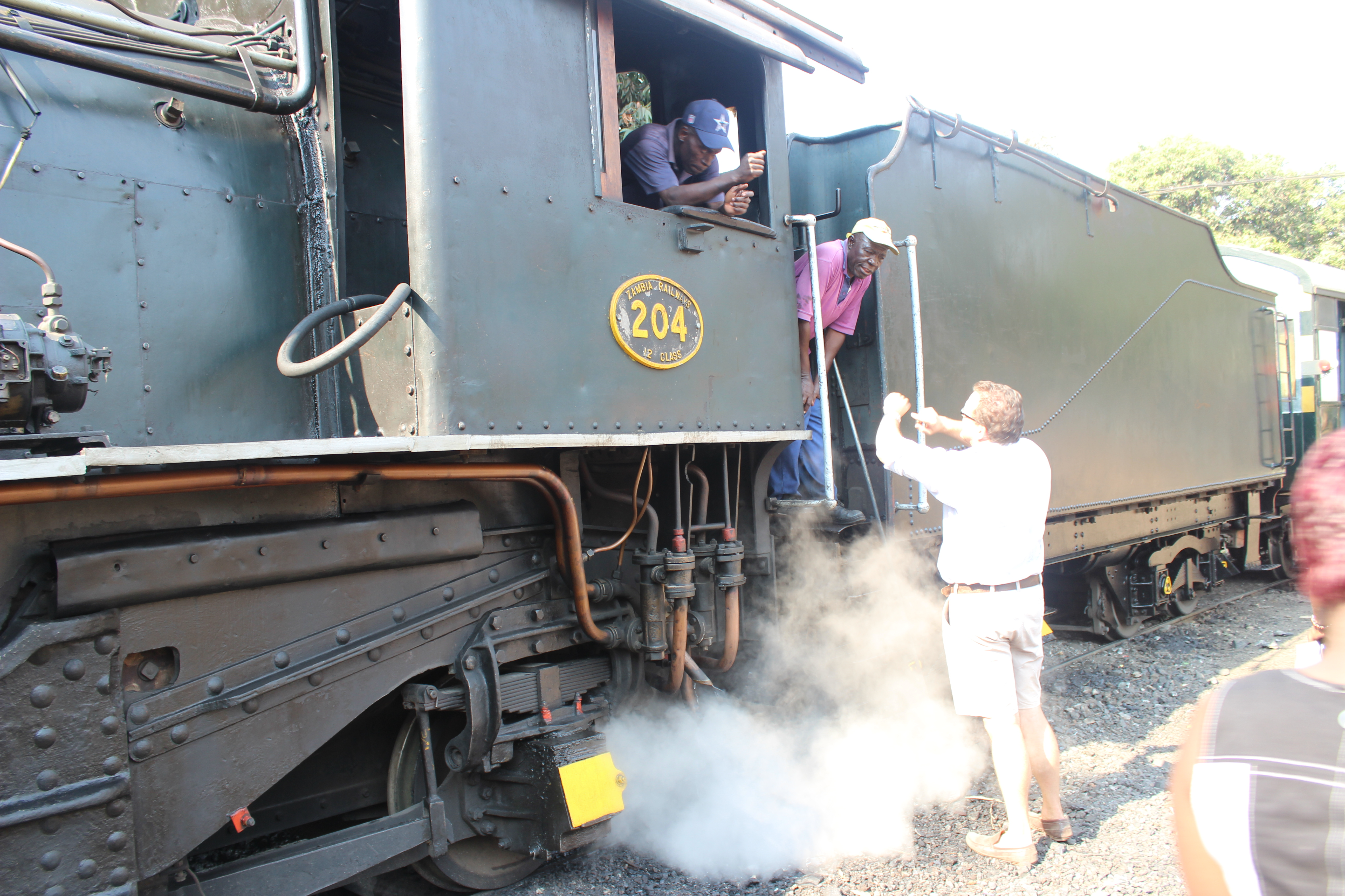 Аҧсшәа: Chitima This is an image with the theme "Africa on the Move or Transport" from: Zimbabwe